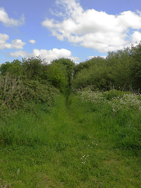 Dismantled railway line Looking at all the undergrowth, it's hard to believe this was once a railway line. The photograph was taken in the very corner of the grid which is almost all flat farmland.